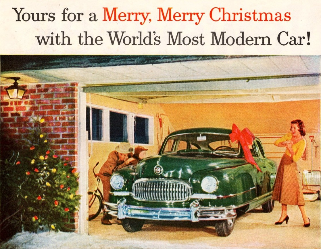 1951 Nash Ambassador Custom 4-Door Sedan